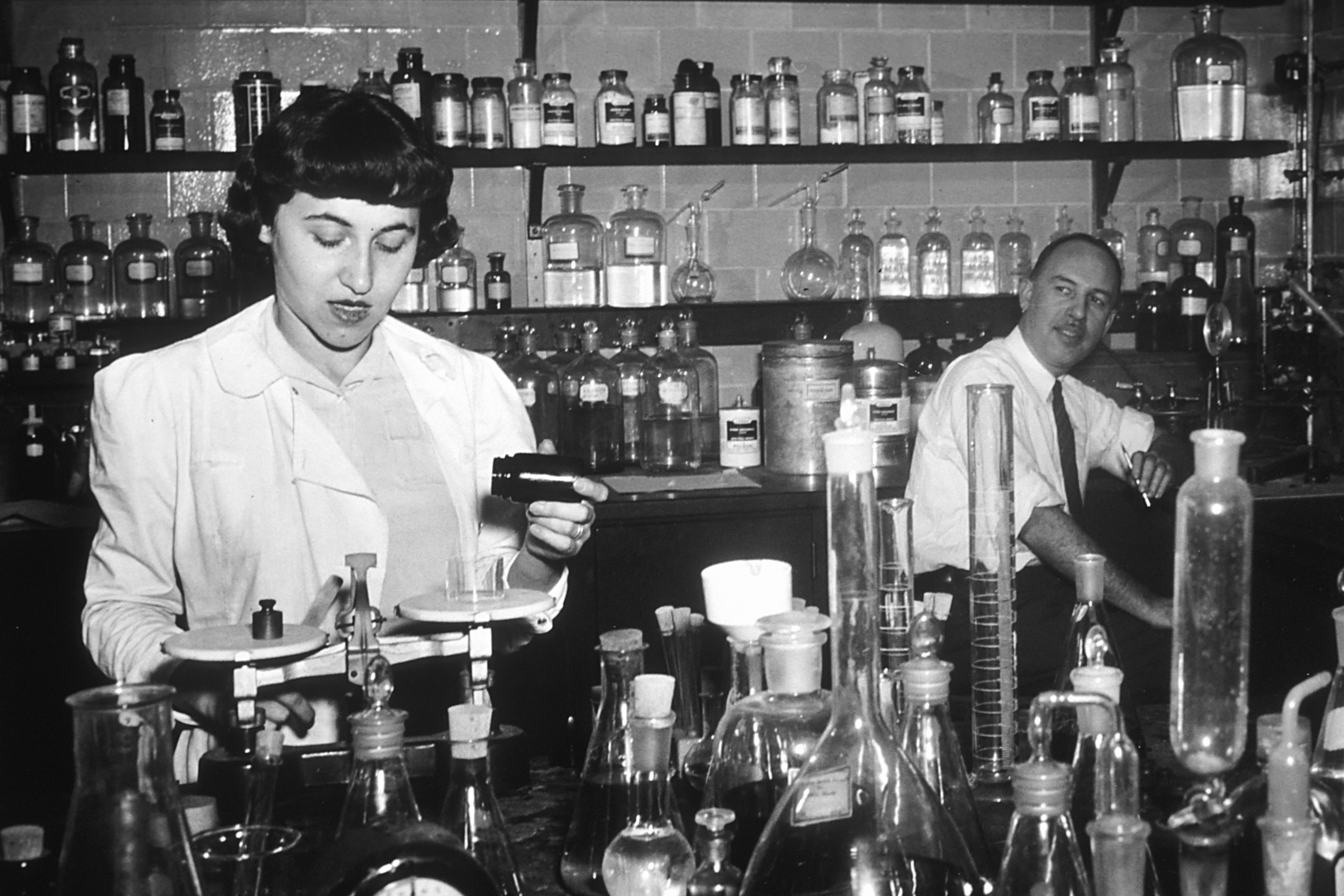 Title Chemotherapy Description The beginning of the chemotherapy testing program. J. Hartwell (right) and assistant at NCI about 1950. Topics/Categories Historical, Technology and Treatment Treatment, Chemotherapy Type B&W, Photo Source National Cancer Institute